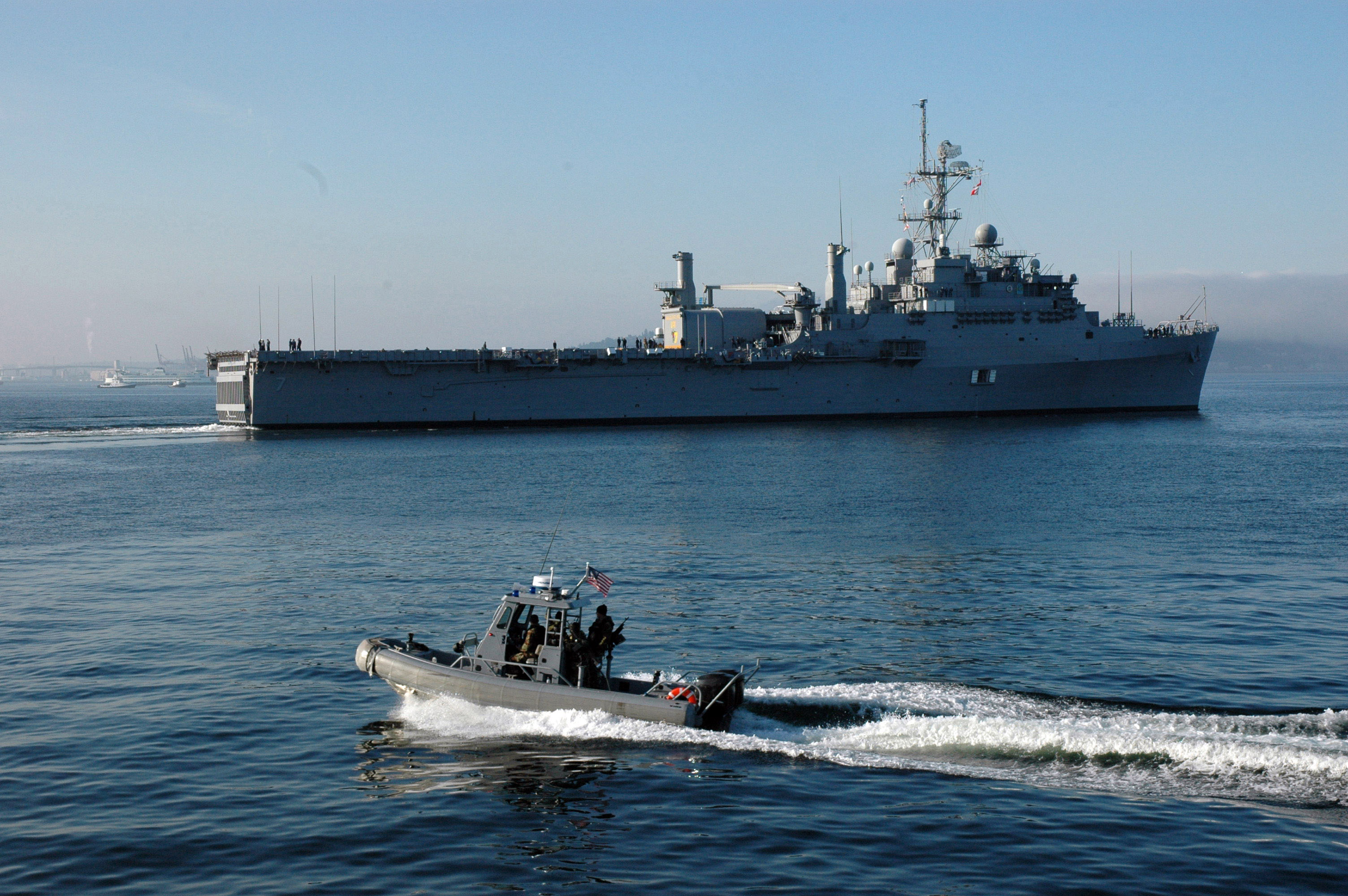 A U.S. Navy mobile security detachment boat escorts the amphibious transport dock ship USS Cleveland (LPD-7) away from the pier in Seattle, Washington (USA), following its involvement in the 57th Annual Seattle Seafair on 8 July 2006.